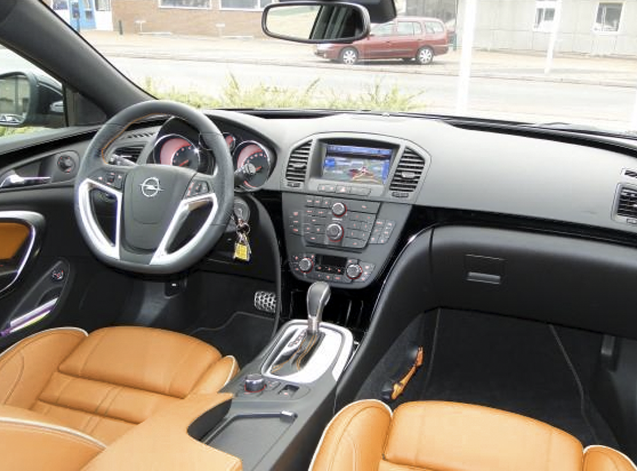 An Opel Insignia dashboard